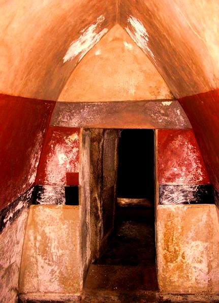 Sfm05